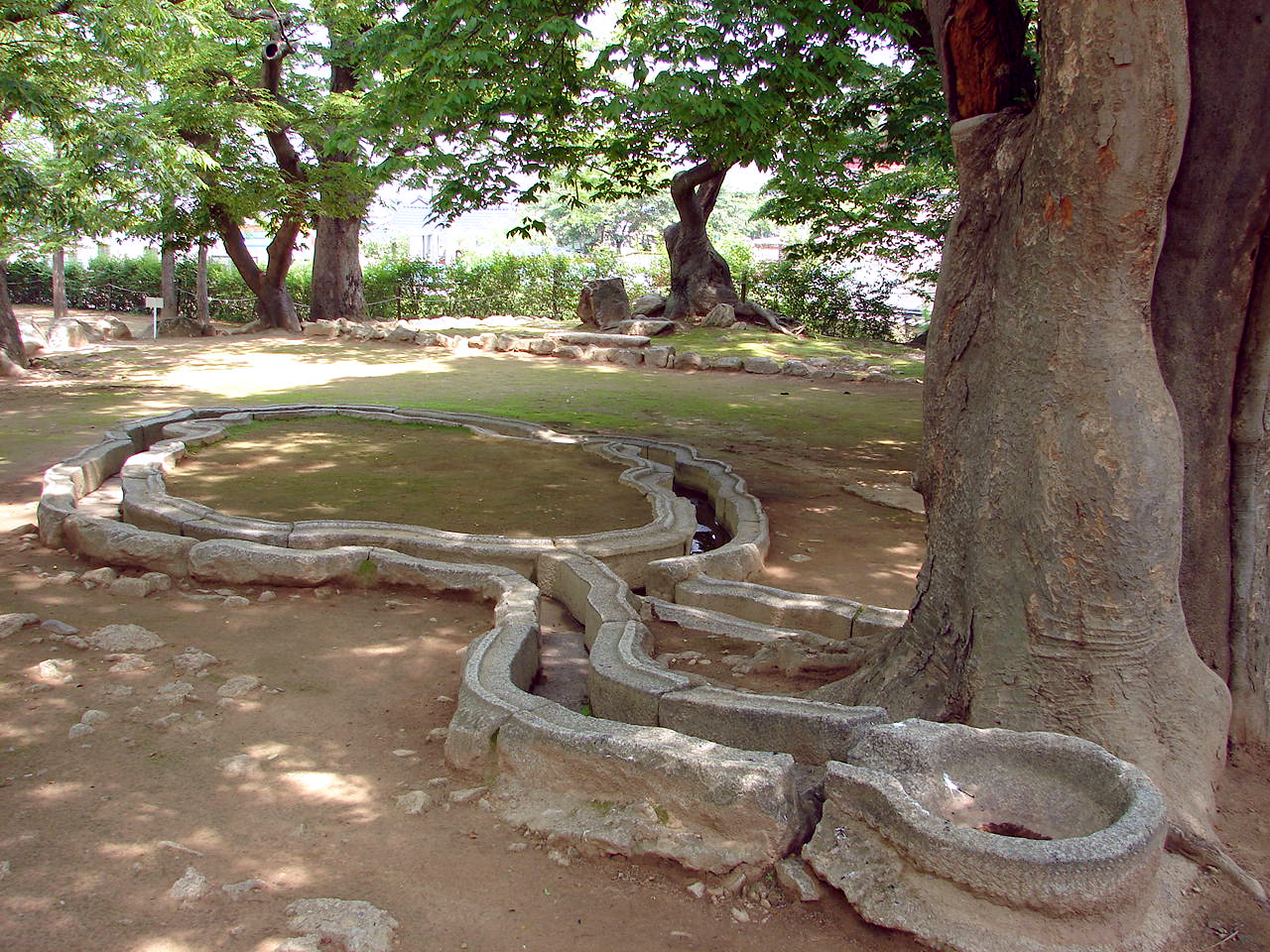 Poseokjeong (Pavilion of Stone Abalone) water feature was built in the Silla period on the site of a former royal pavilion. During banquets in the last days of the Silla kingdom, the king's official and noble guests would sit along the stream of water channeled through the blocks of granite, chatting and reciting poetry, while cups of wine were served up floating along in the water. Poseokjeong was designated as historic site No.1